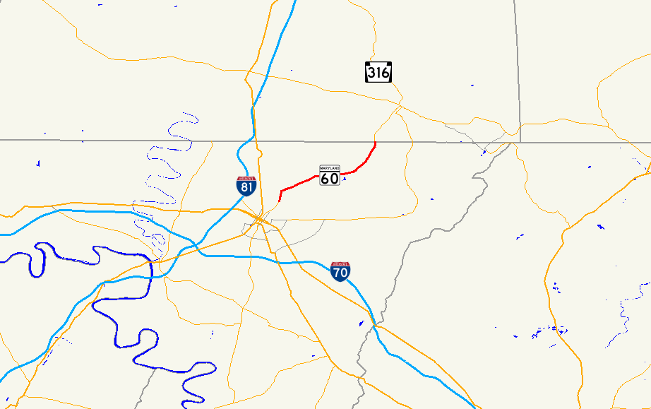 Map of Maryland Route 60